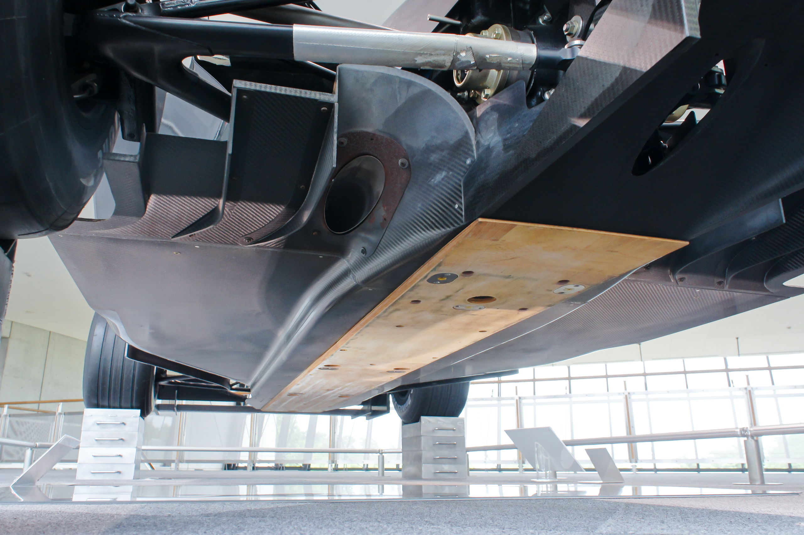 1996 Honda RC-F1 2.0X; wooden stepped flat bottom